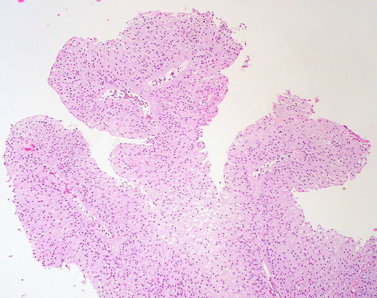 Papillary Urothelial Neoplasm of Low Malignant Potential (PUNLMP), Urinary Bladder Pathological and histological images courtesy of Ed Uthman at flickr.